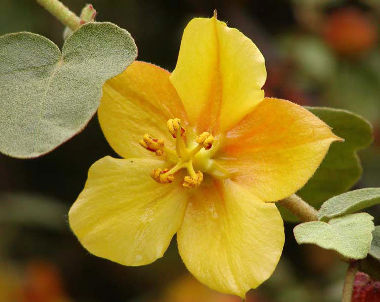 Fremontodendron 'Ken Taylor' — hybrid of Fremontodendron californicum × Fremontodendron mexicanum. At the San Francisco Botanical Garden.